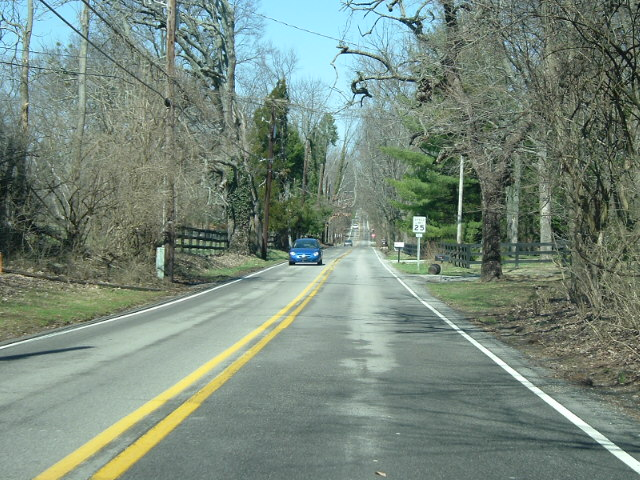 Evergreen Rd LOUKY